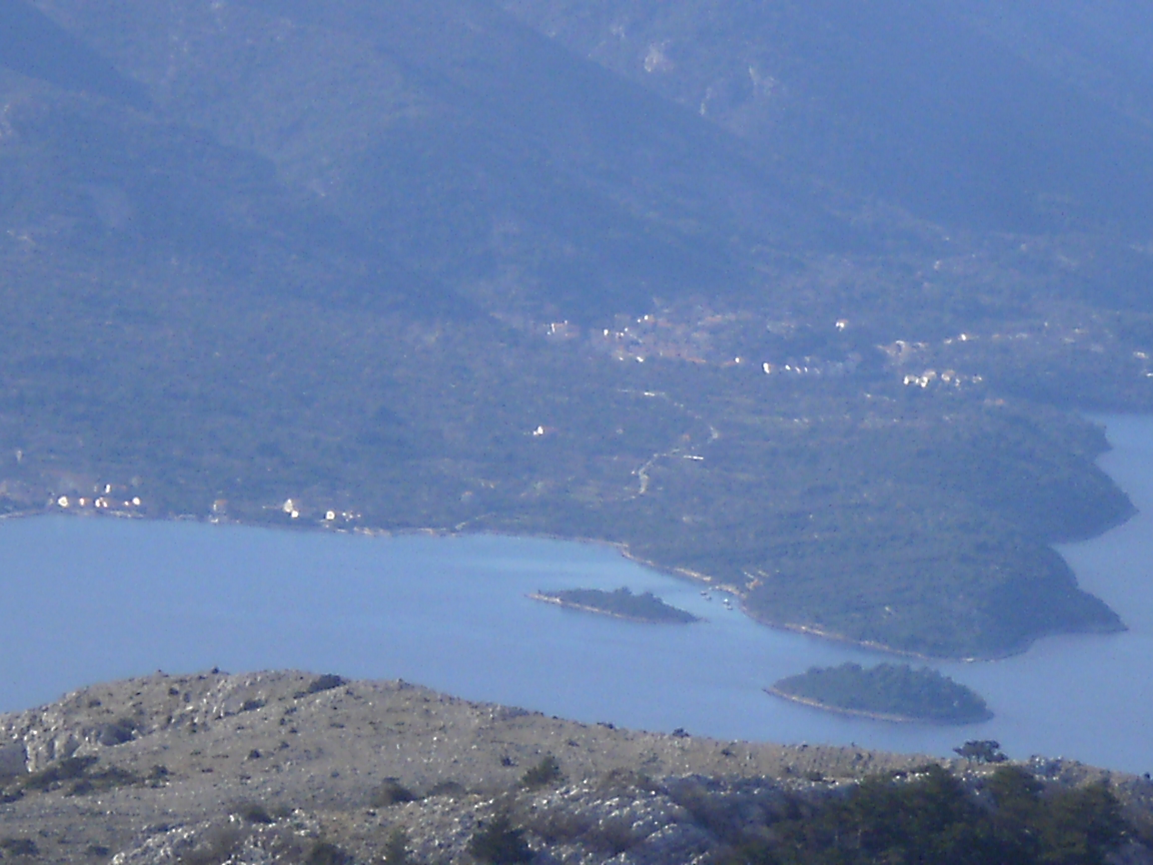 Islands Mala Kneža and Vela Kneža in Pelješac channel OLYMPUS DIGITAL CAMERA